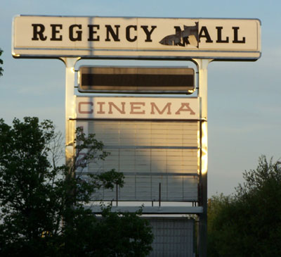 Regency Malls Marquee Sign on Deans Bridge Rd.